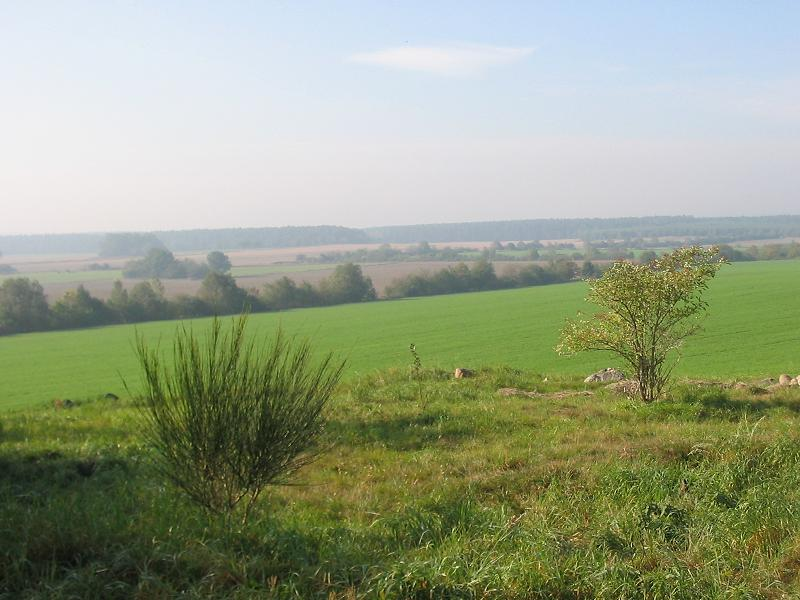 View from the Hagelberg (mountain) over the Fläming. The village Hagelberg is a part of the town Belzig in the district Potsdam Mittelmark, state Brandenburg, Germany. The village appertains to the nature park Naturpark Hoher Fläming. The eponymous Hagelberg (hill) is with a height of total 200 meters the highest elevation in the Fläming. There are two monuments commemorating to the prussian victory in the „Battle nearby Hagelberg“ in 1813 against Napoleon.